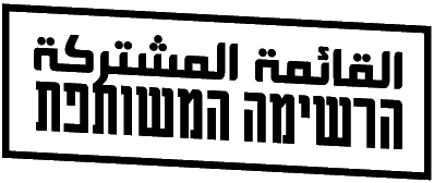 Logo of Arab Israeli Joint List